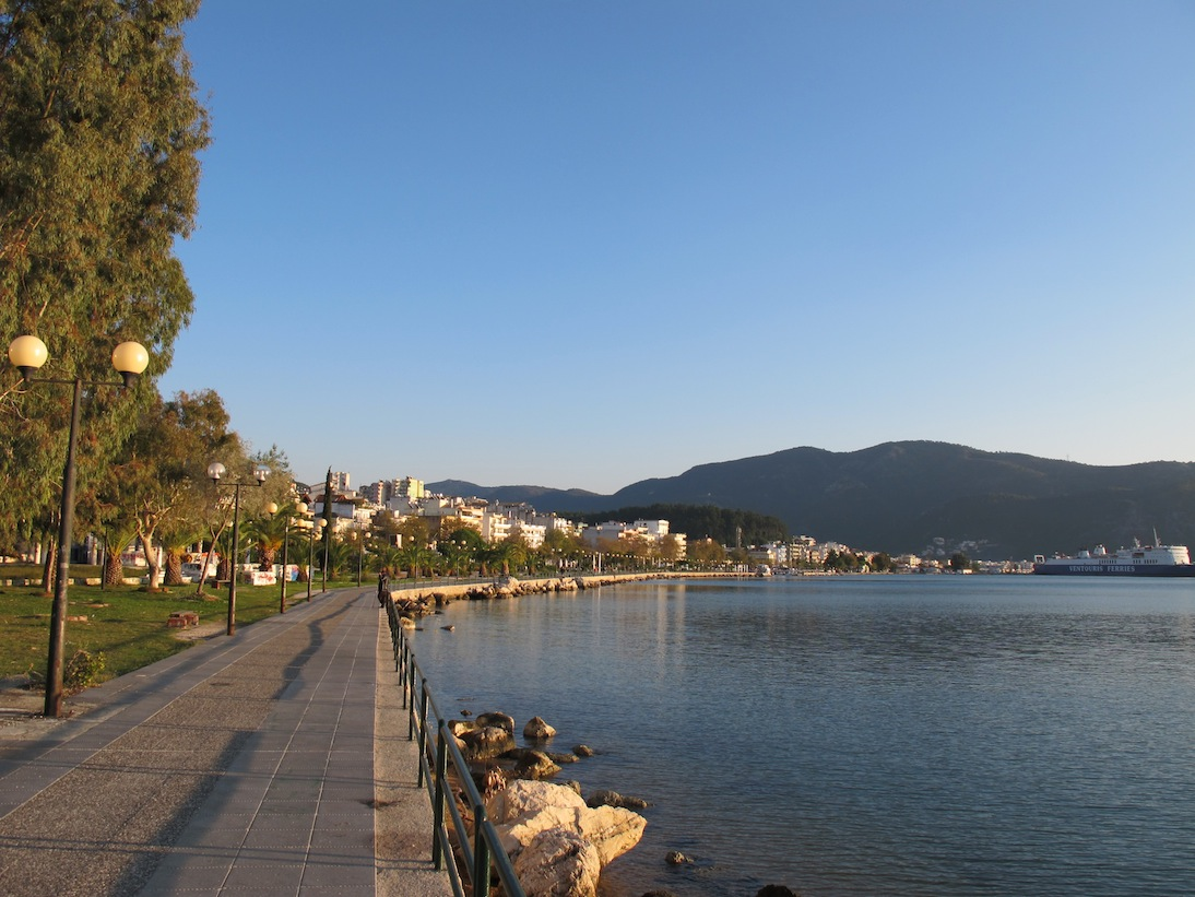 igoumenitsa waterfront